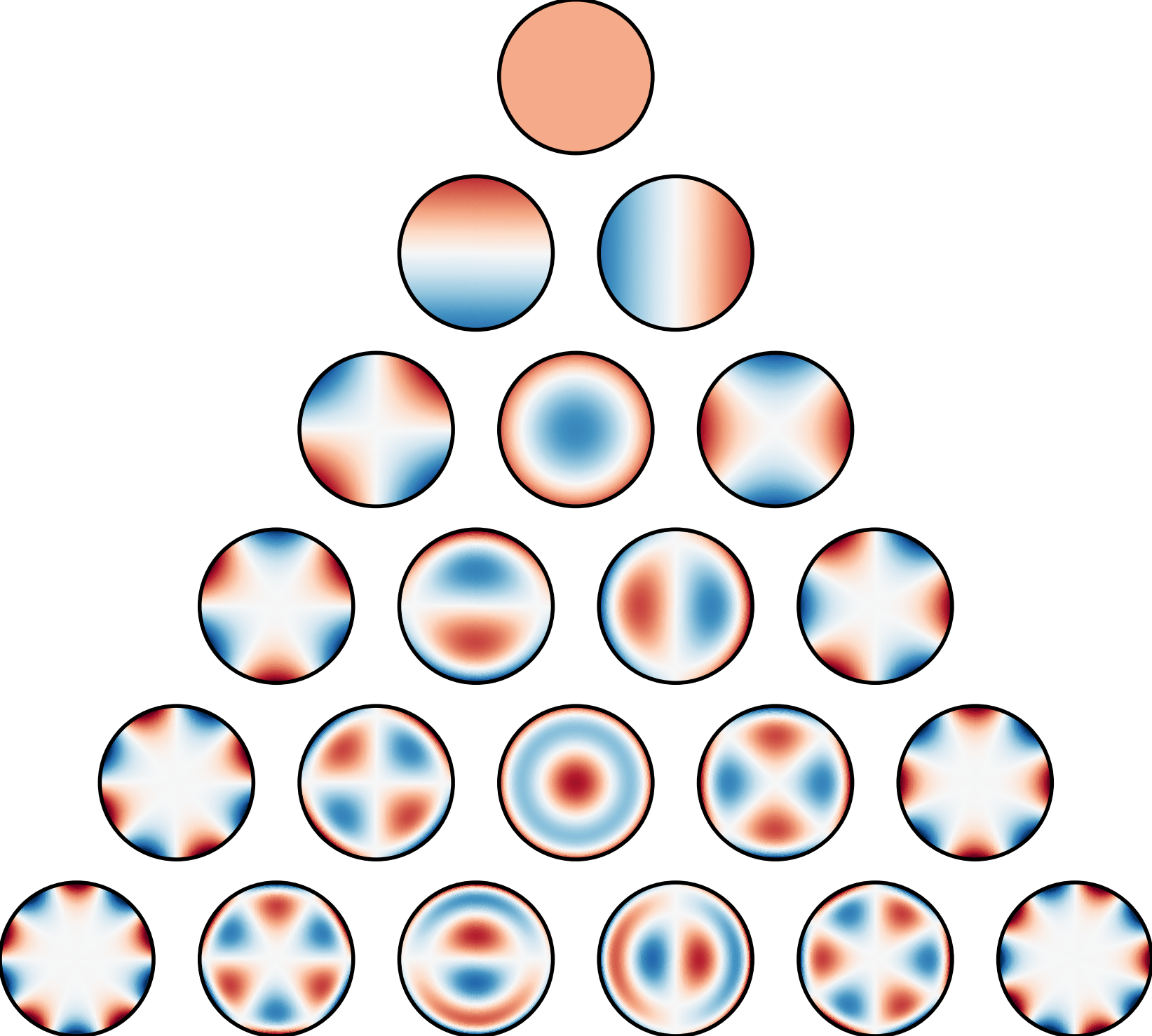 The first 21 Zernike polynomials as produced by orthopy.